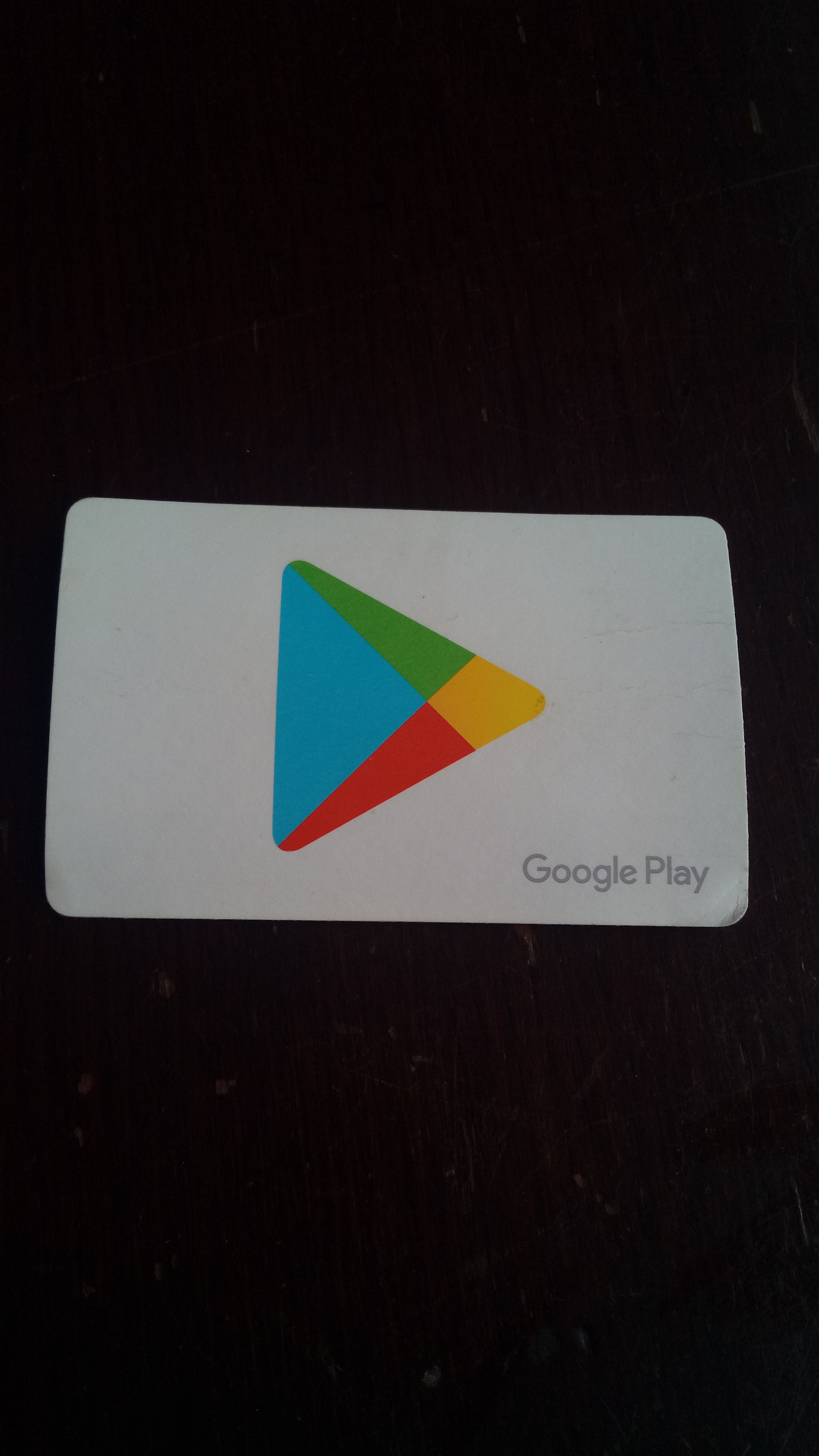 A Google Play card worth € 15,- (fifteen Euro's) in the Groninger village of Oude Pekela, Veenkoloniën.